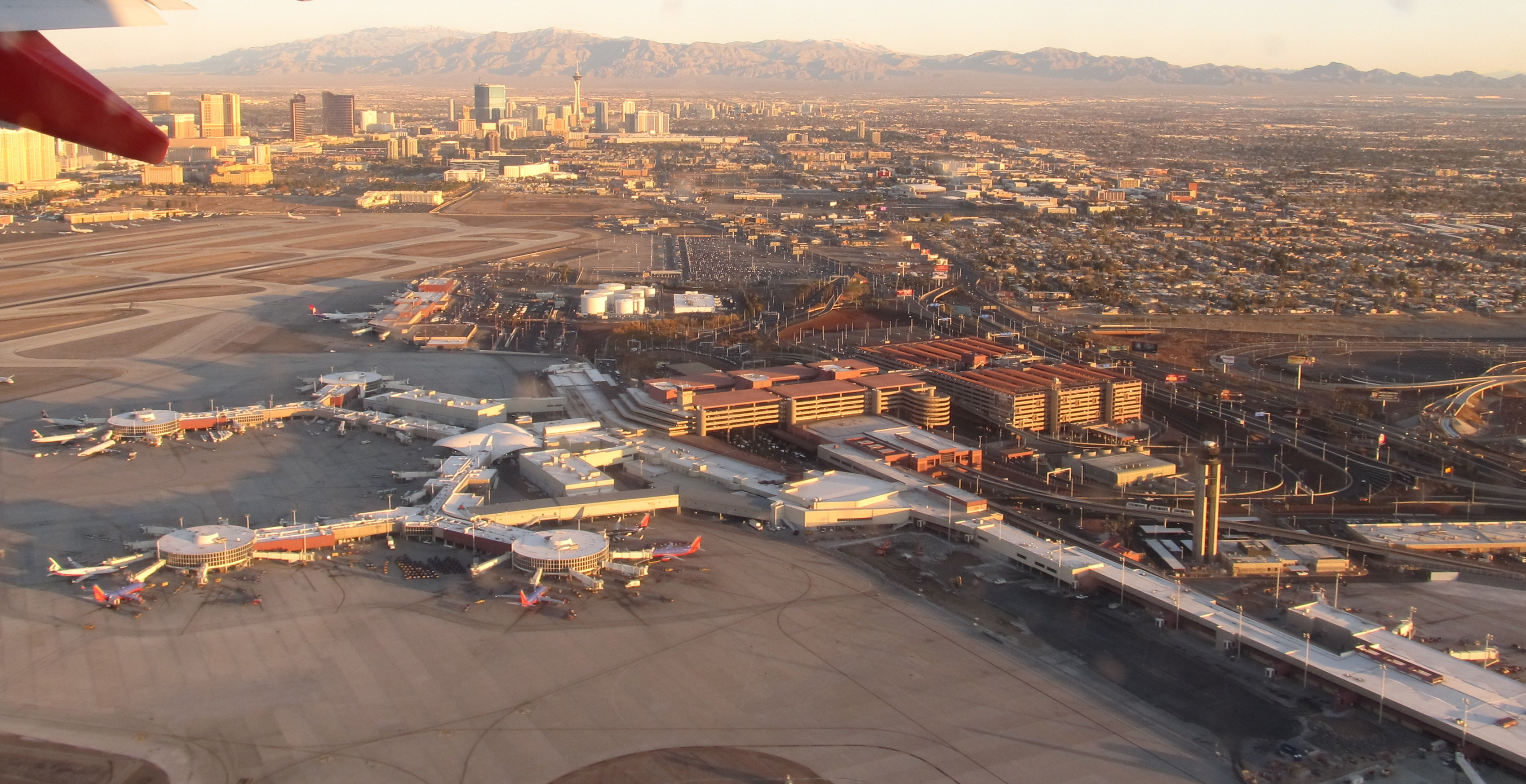 Aerial photograph of Terminal 1 at McCarran International Airport. The four rotundas of Concourses A and B can be seen at left.